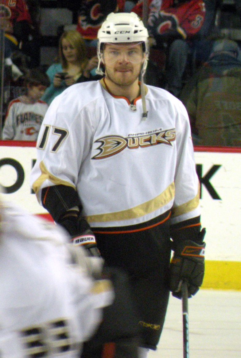 Anaheim Ducks forward Petteri Nokelainen prior to a National Hockey League game against the Calgary Flames.